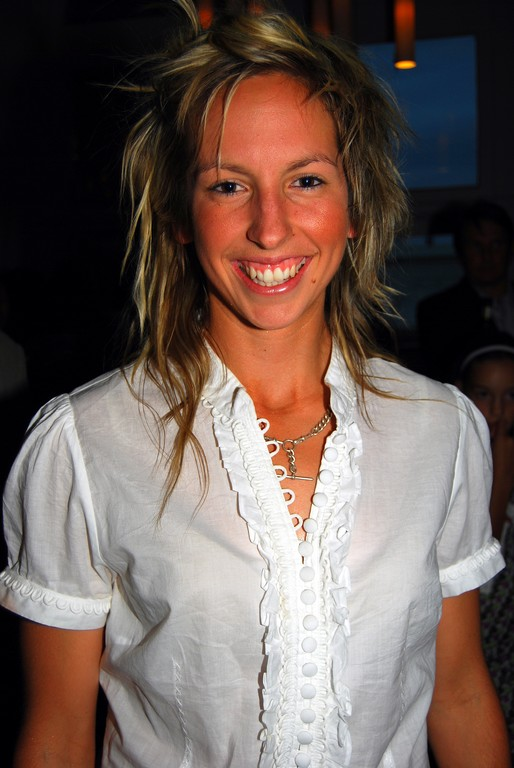 Sally Shipard at the launch of a SBS doco on the Matildas.